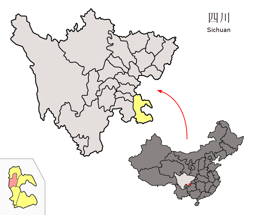 Location of Luzhou City Districts (pink) and Luzhou Prefecture (yellow) within Sichuan province of China Map drawn in october 2007 using various sources, mainly : Sichuan province administrative regions GIS data: 1:1M, County level, 1990 Sichuan Counties map from